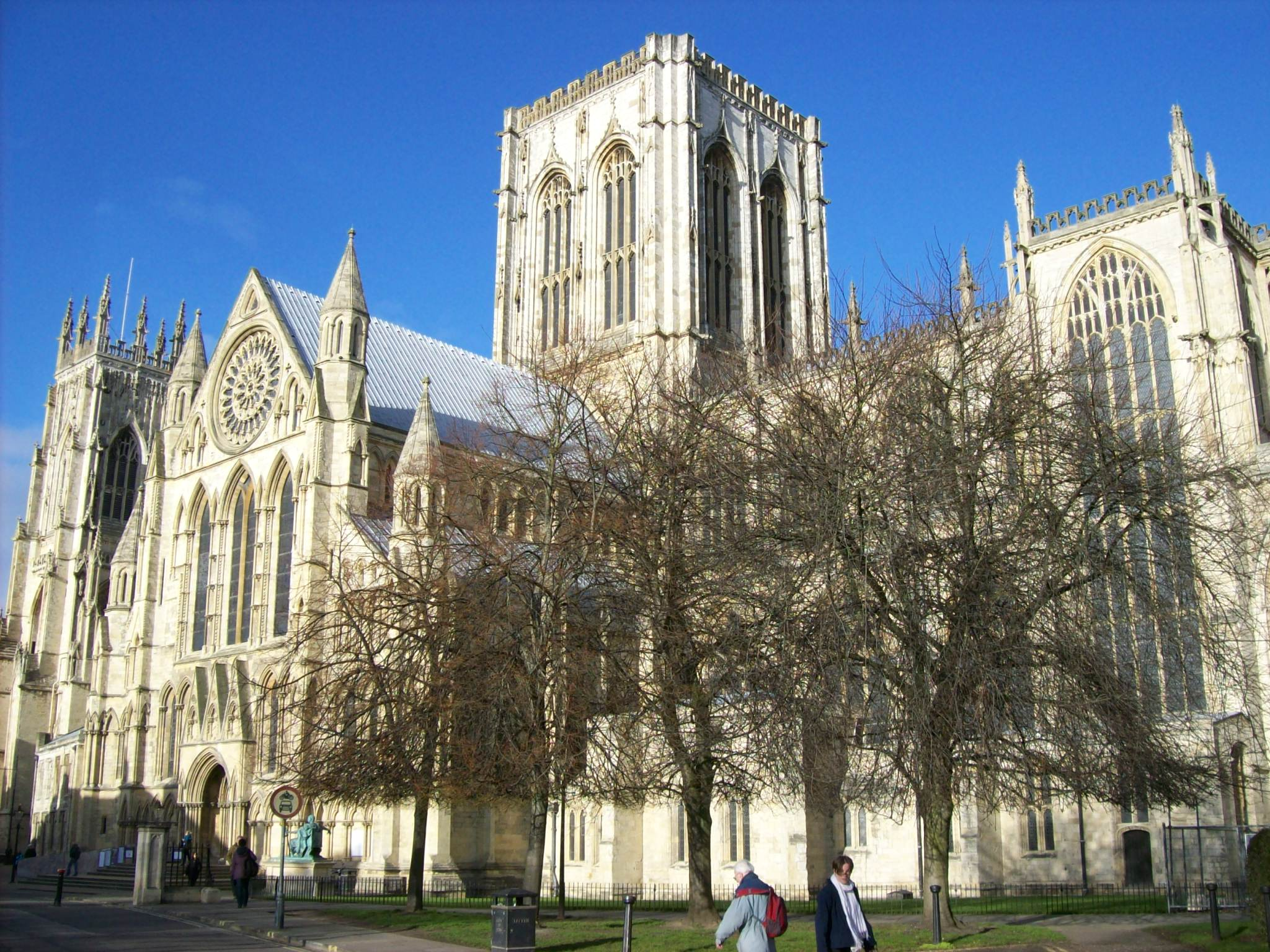 York Minster